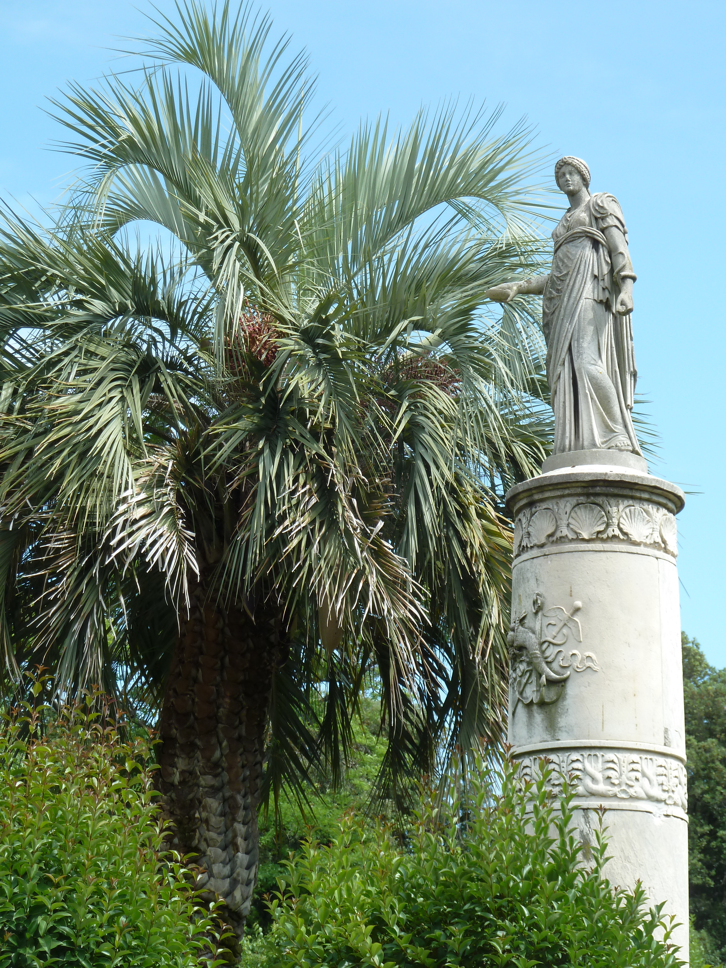 Parco Inclusivo Luciano Vizzoni, Livorno, Italy 2015